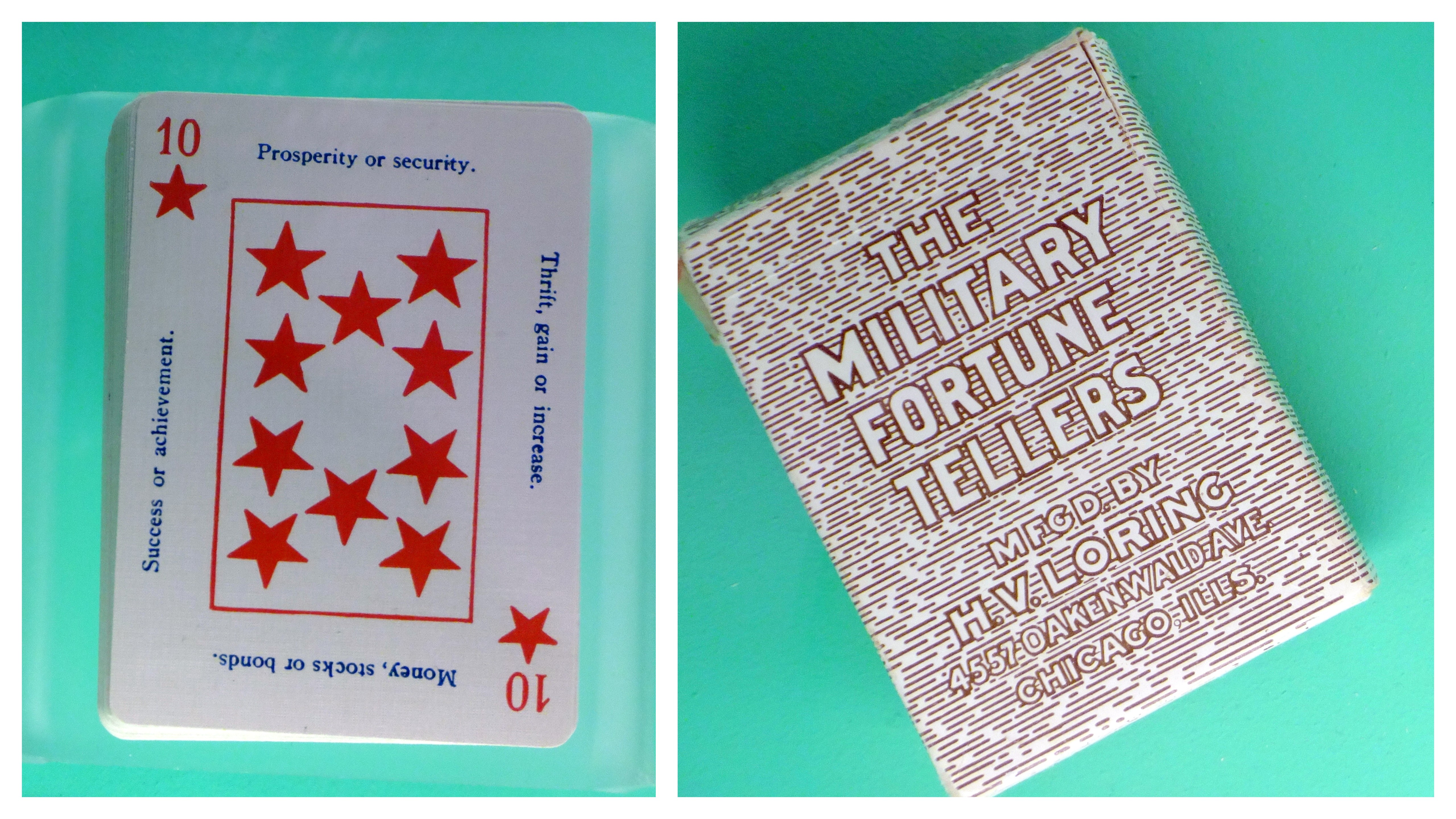 military playing cards from the United States, 10 of stars and box